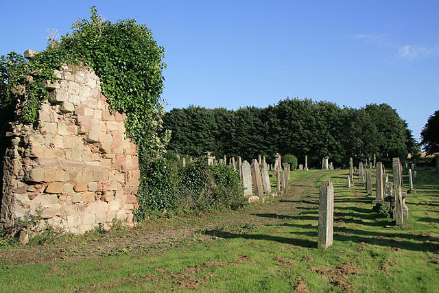 Ayton Parish Church cemetery